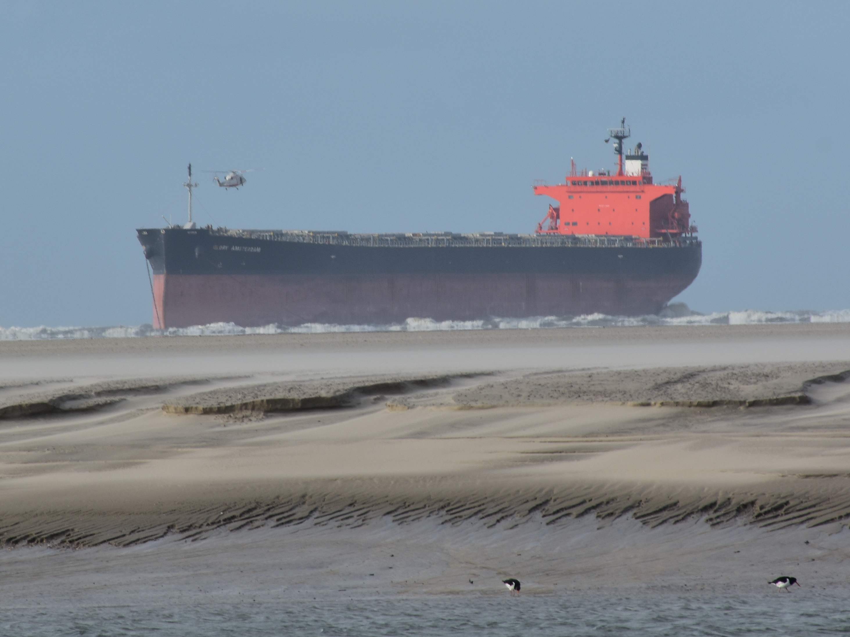 Ship after storm in Germany, October 30, 2017.